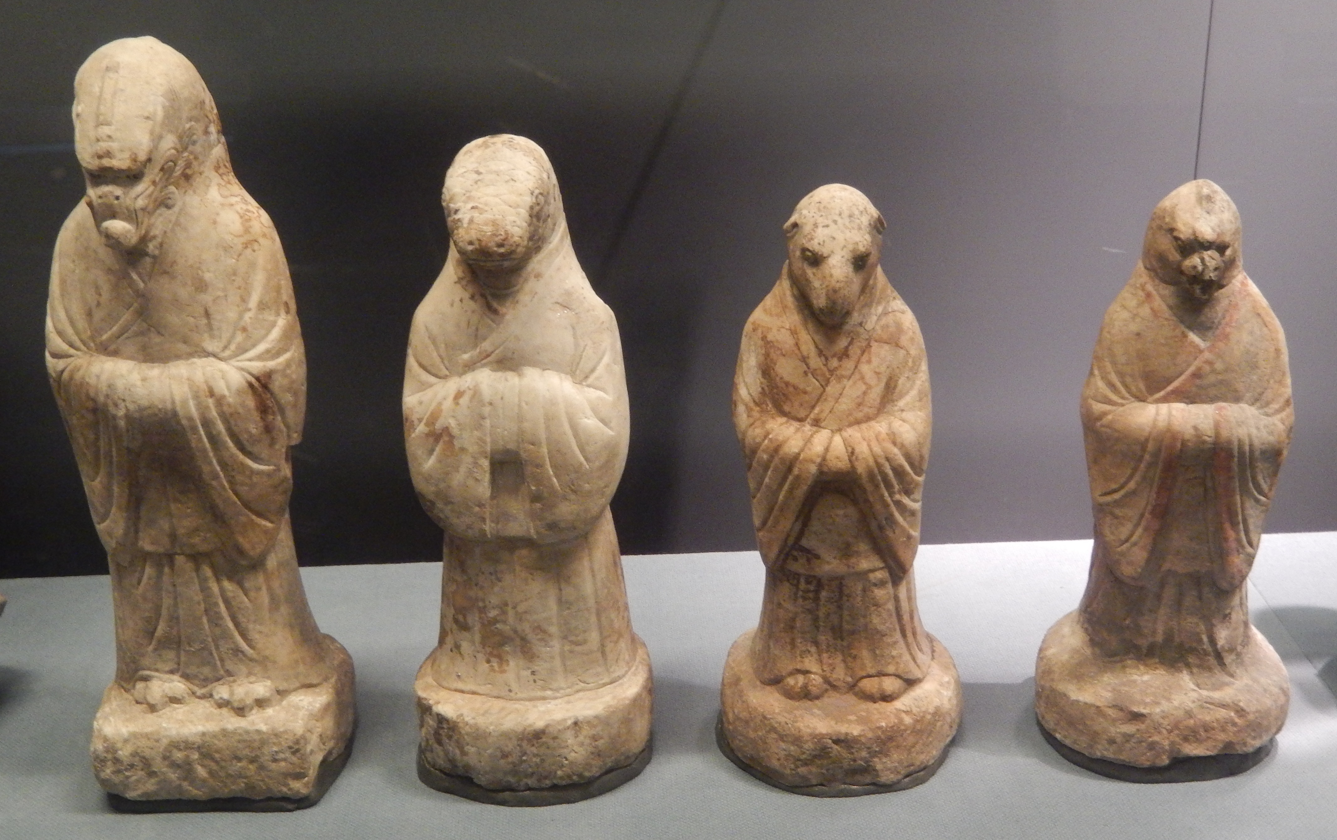 Stone funerary figurines of four of the twelve zodiac animals (Dragon, Snake, Goat and Rooster). Unearthed from the tomb of Xue Fujun at Yaojiajing in Xuanwu District, Beijing. Tang dynasty (618–907). Held at the Capital Museum, Beijing.